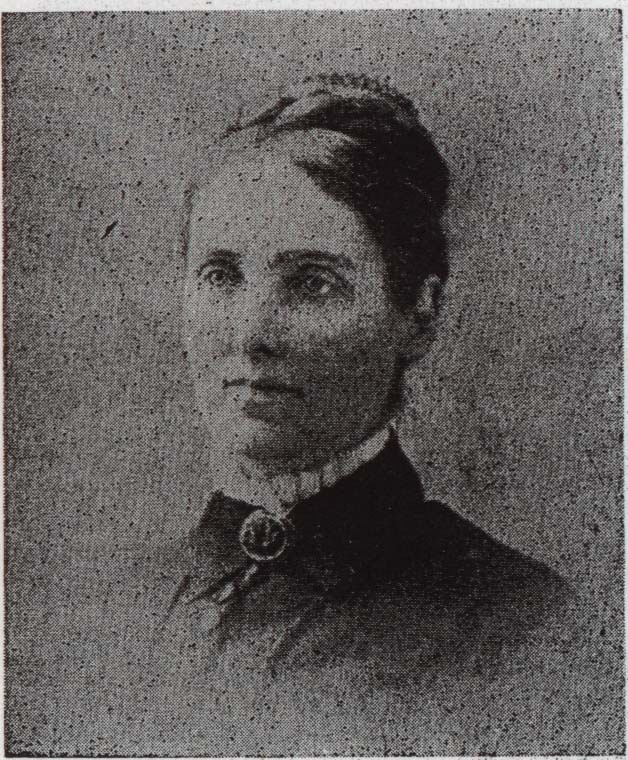 Photo of Eliza Gibson, wife of Rev. Otis Gibson, taken from Prof. Jeff Staley's paper "Gum Moon": The First Fifty Years of Methodist Women’s Work in San Francisco Chinatown, 1870-1920